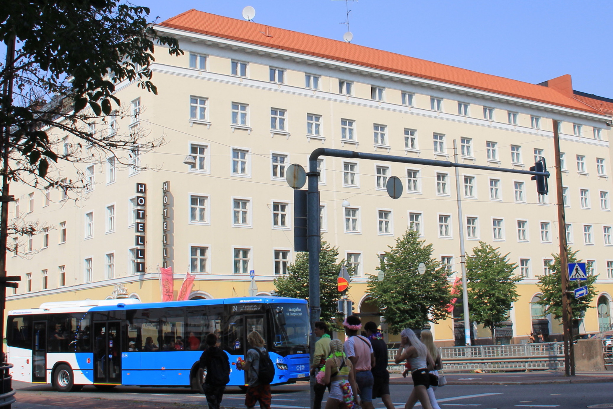 Hotel Helka, Etu-Töölö, Helsinki, Finland. - Building was designed by architects Wivi Lönn and Aili-Salli Ahde-Kjäldman. It was completed in 1928.